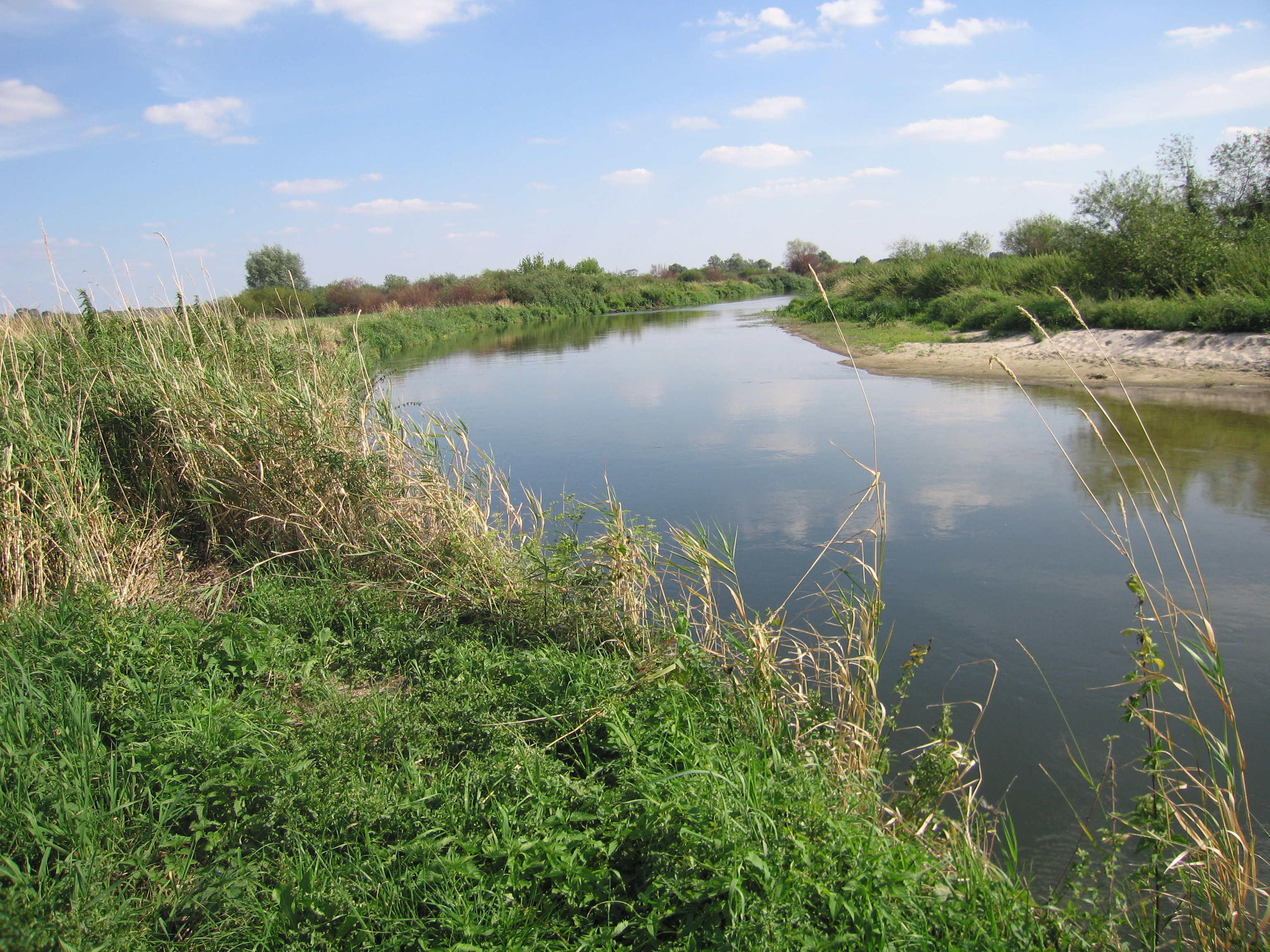 River Nida